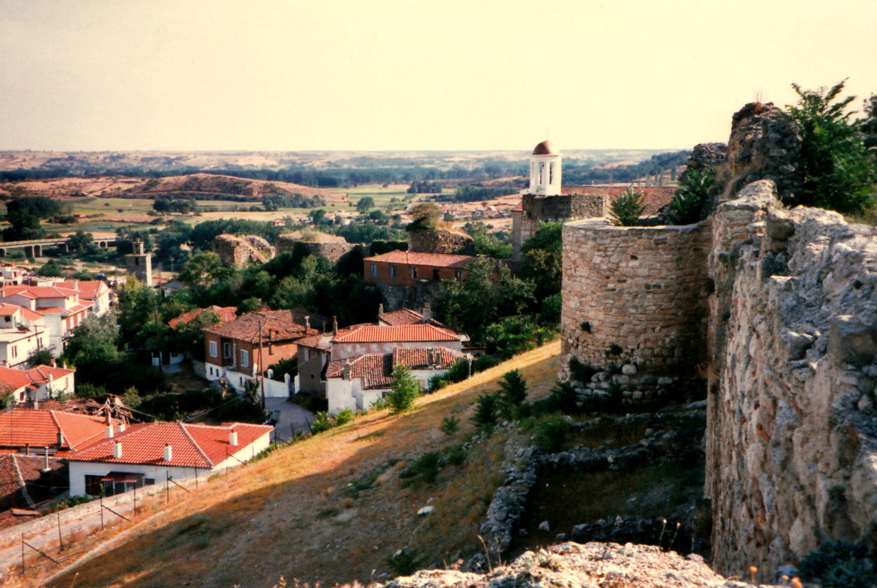 Didymoteicho: Fortress, West battlements